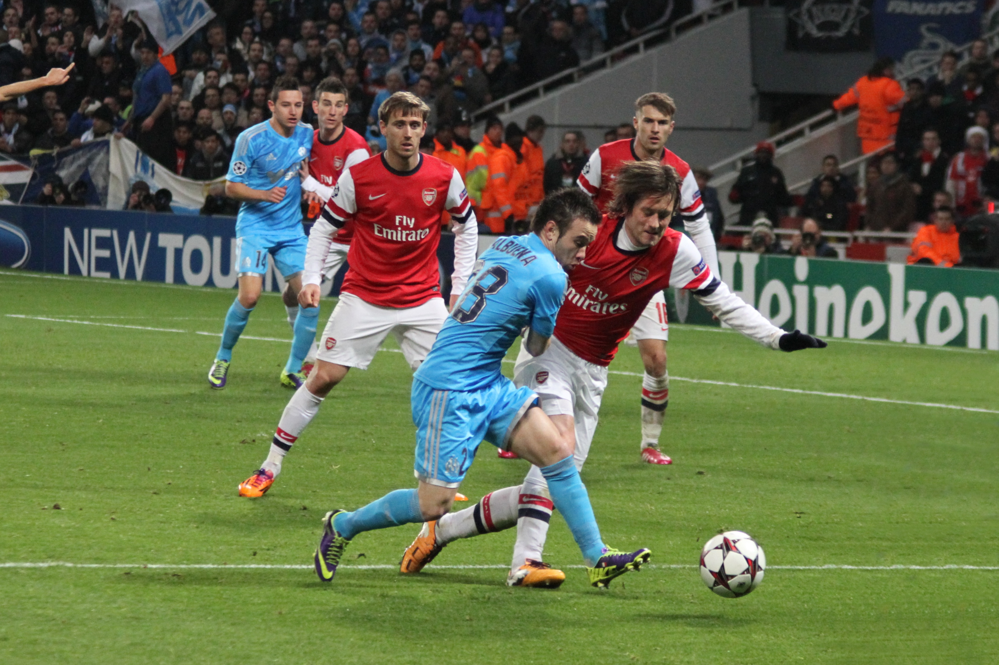 Rosicky back defending